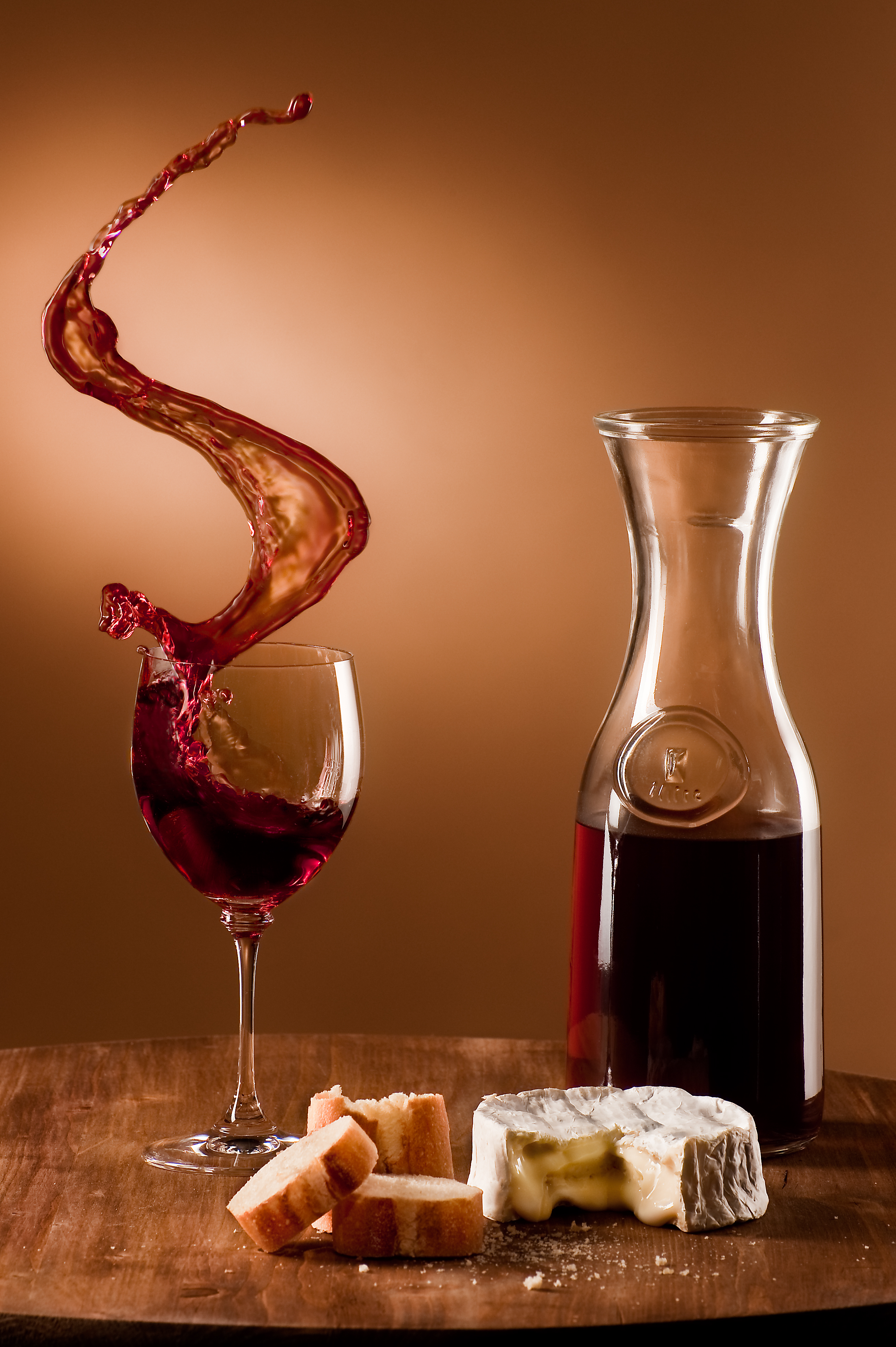 Tabletop photography by "Studiocommunity e.V." (incorporated association). No photomontage was used. All objects were fastened on the board, which was pushed from the side, causing the wine to spill out of the glass. Produced using a limit switch. The carafe is filled with gelatine made with wine.